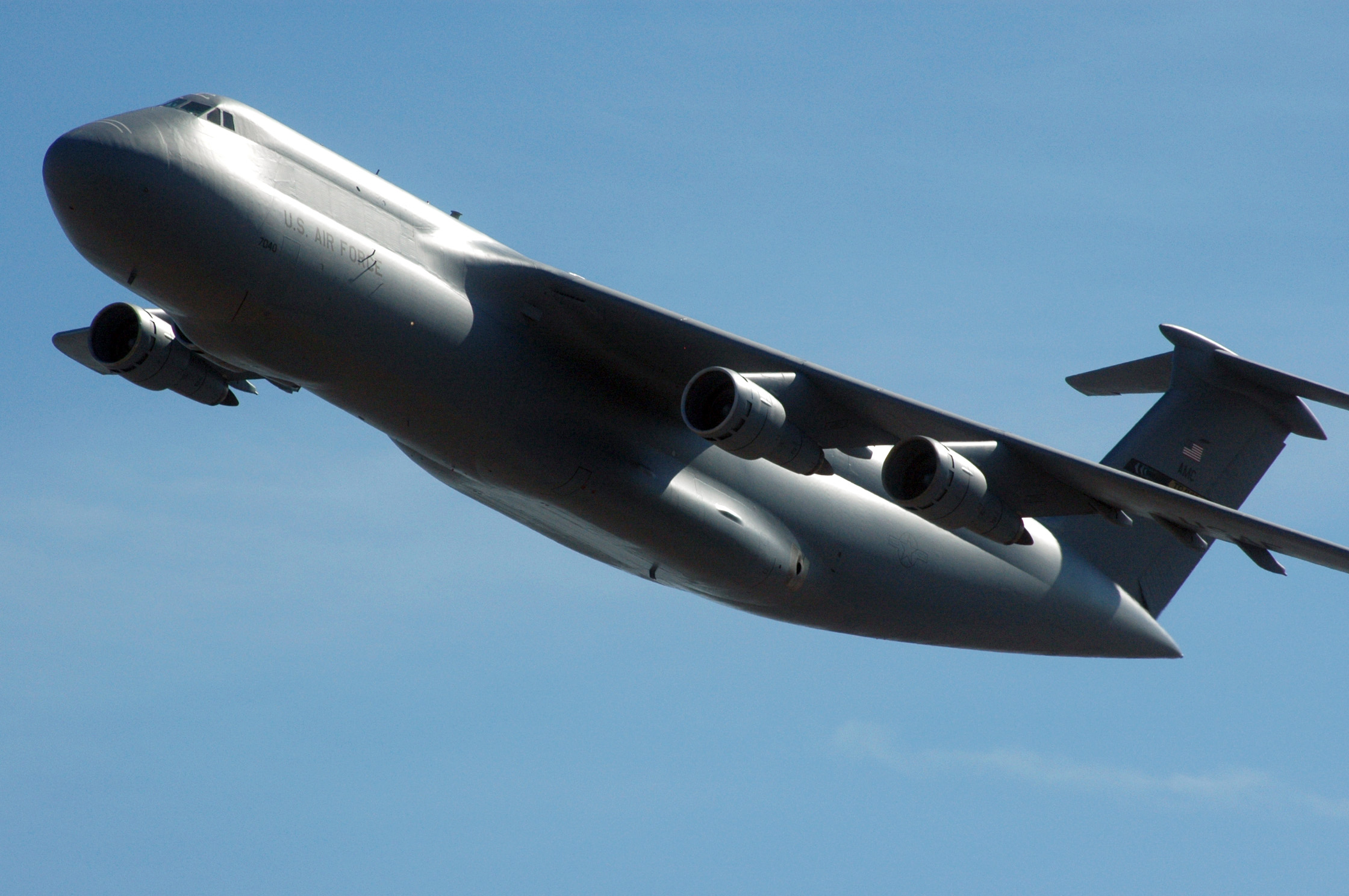 The Warner Robins Air Logistics Center at Robins Air Force Base, Ga., received the 2006 Franz Edelman Award for Achievement in Operations Research on Monday, May 1, 2006, for its use of operations research to streamline maintenance procedures for the C-5 Galaxy. Using innovative management processes, the time required to repair and overhaul the C-5 was reduced 33 percent.